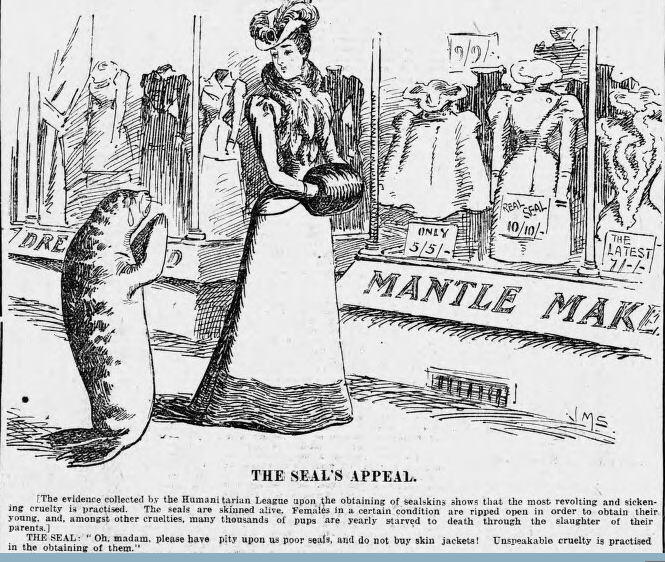 Political cartoon by JM Staniforth. A seal pleads to a wealthy woman not to but seal fur clothing.